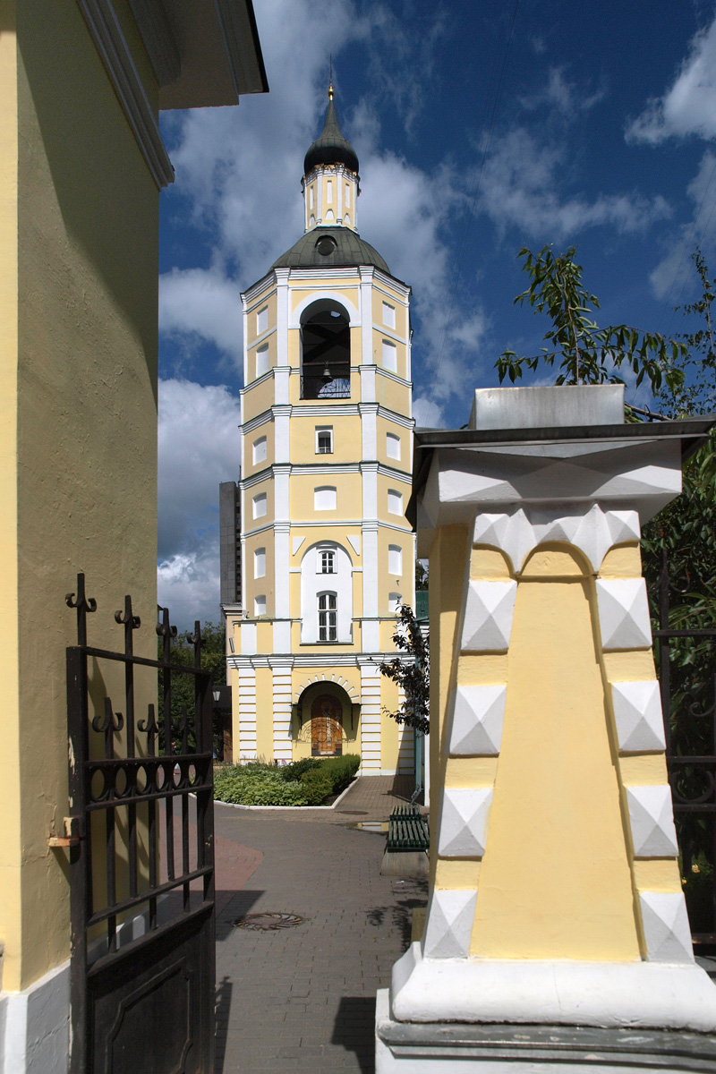 Belltower of the church of St. Philipp the Metropolitan of Moscow in the former Meshchanskaya sloboda (Moscow, 1777-1788)